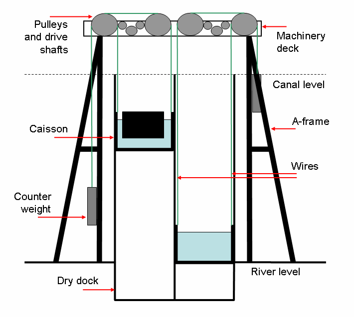 December 2006: Created by user:Gandalf61 with Powerpoint, exported as PNG file. Diagram of Anderton Boat Lift after conversion to electrical operation (not to scale)